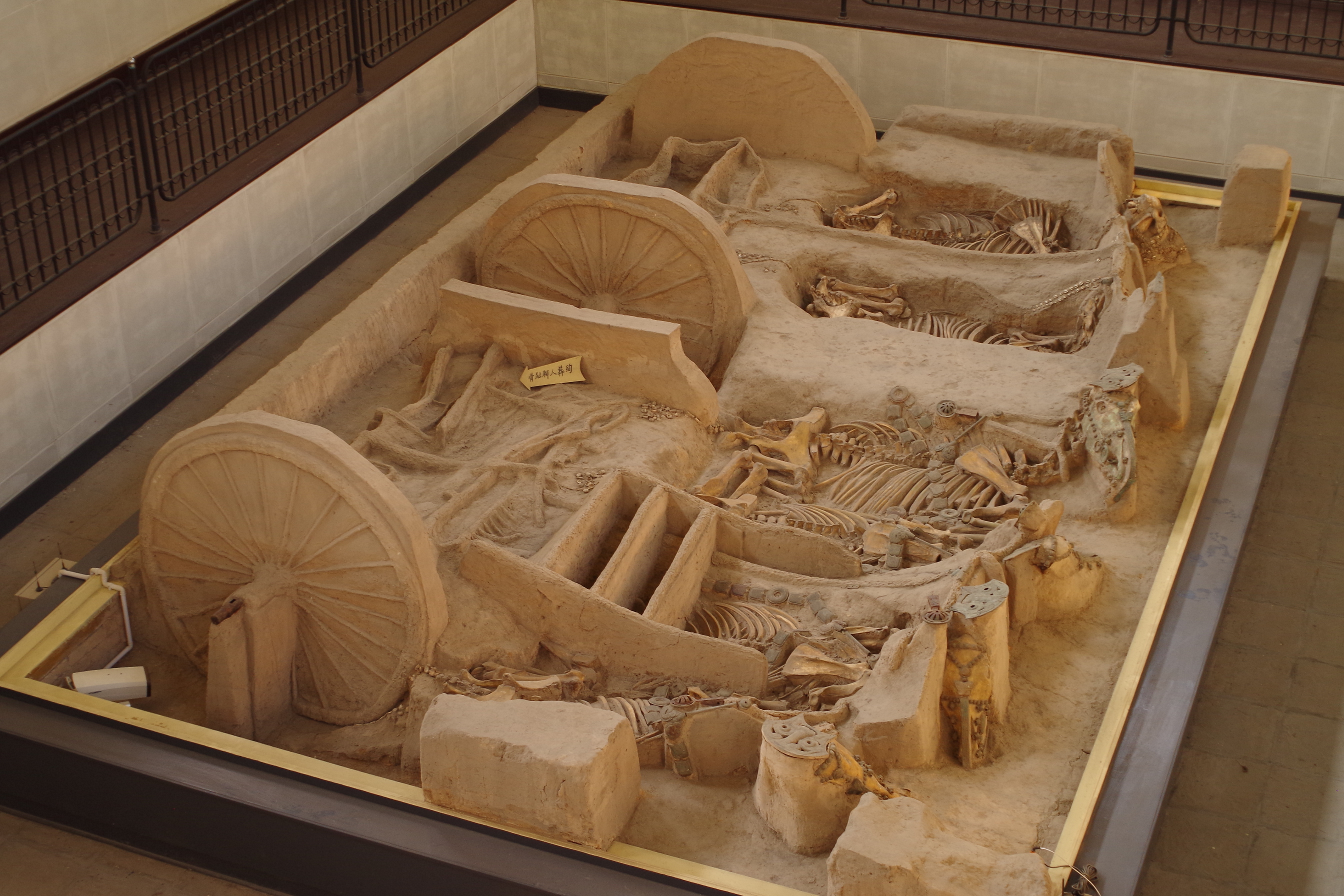 Remains of carriages and horses (pit 2) of the Western Zhou period (1046–771 BCE) of China, in capital Feng, located around Mawang town of Xi'an today.